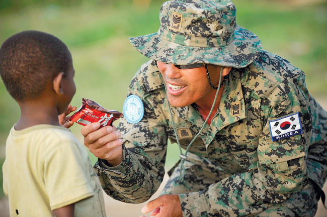 A Korean soldier under Danbi unit which is implementing reconstruction mission in quake-ravaged Haiti gives a Korean-made snack "Chocopie" to a local kid. Chocopie has become local children's favorite snack. (Source: Ministry of National Defense)